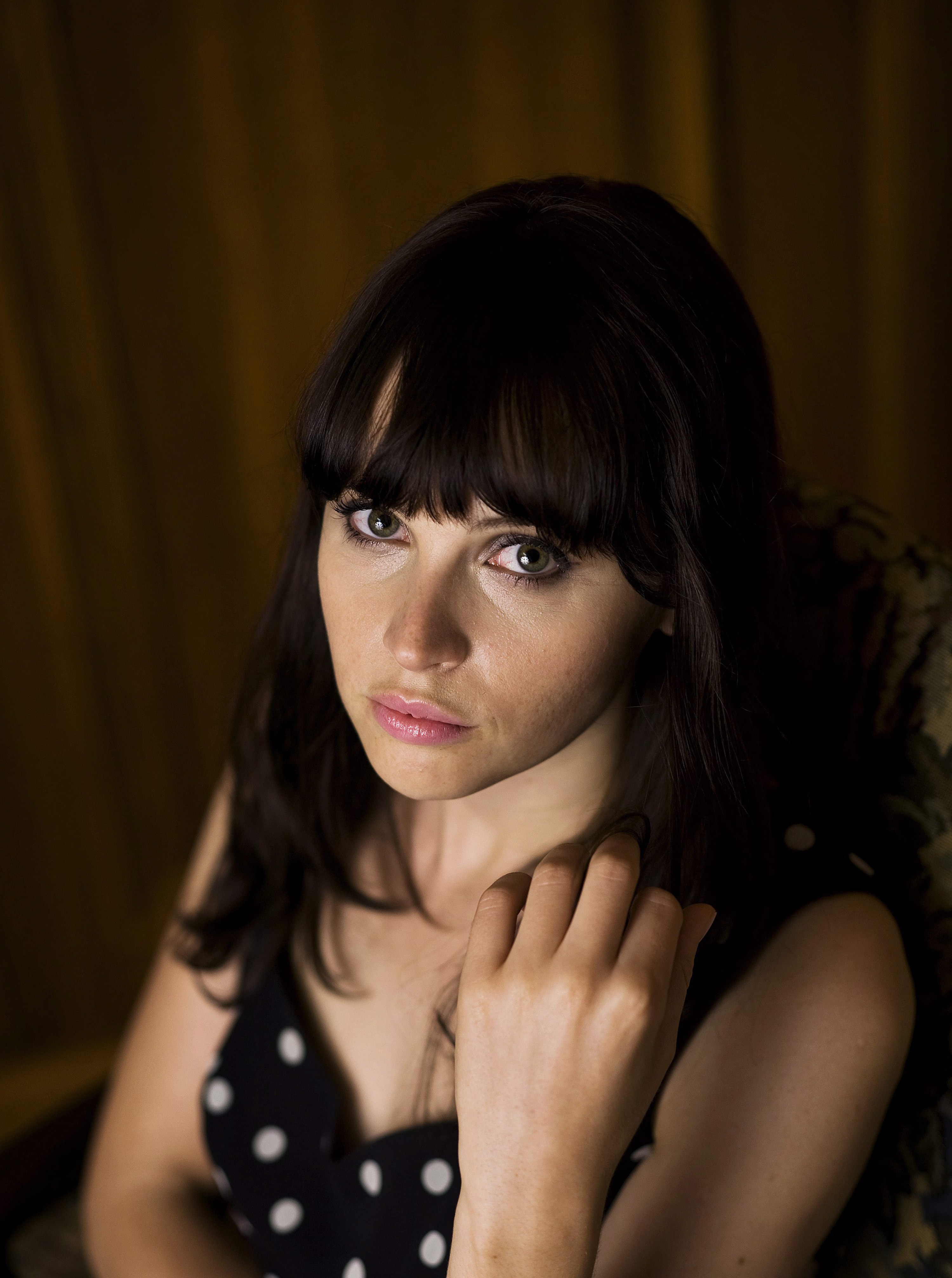 Felicity Jones posing for a photograph while promoting the film Like Crazy during the Toronto International Film Festival in Toronto, September 13, 2011